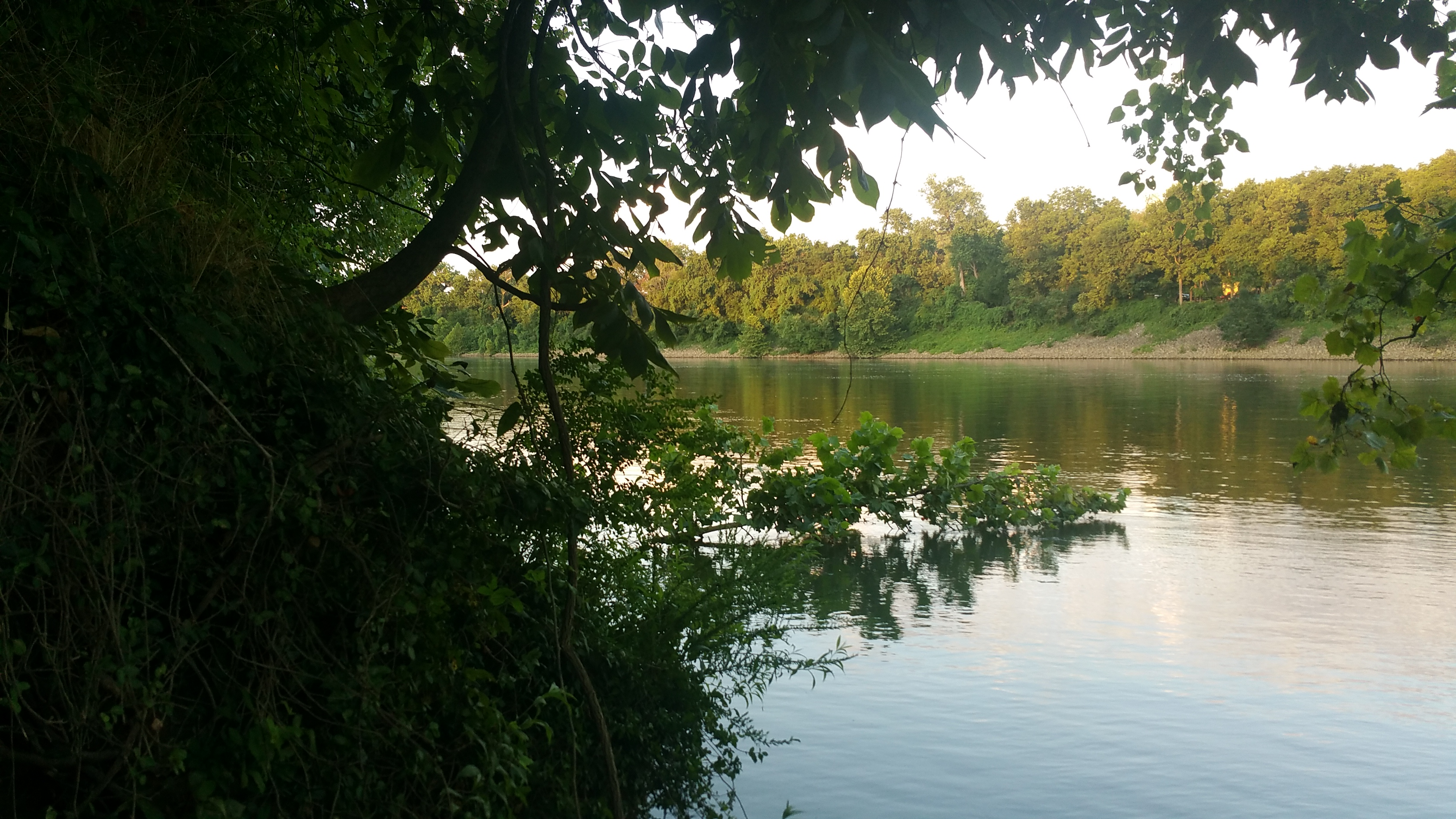 Cumberland river in East Nashville, next to Shelby buttons park.